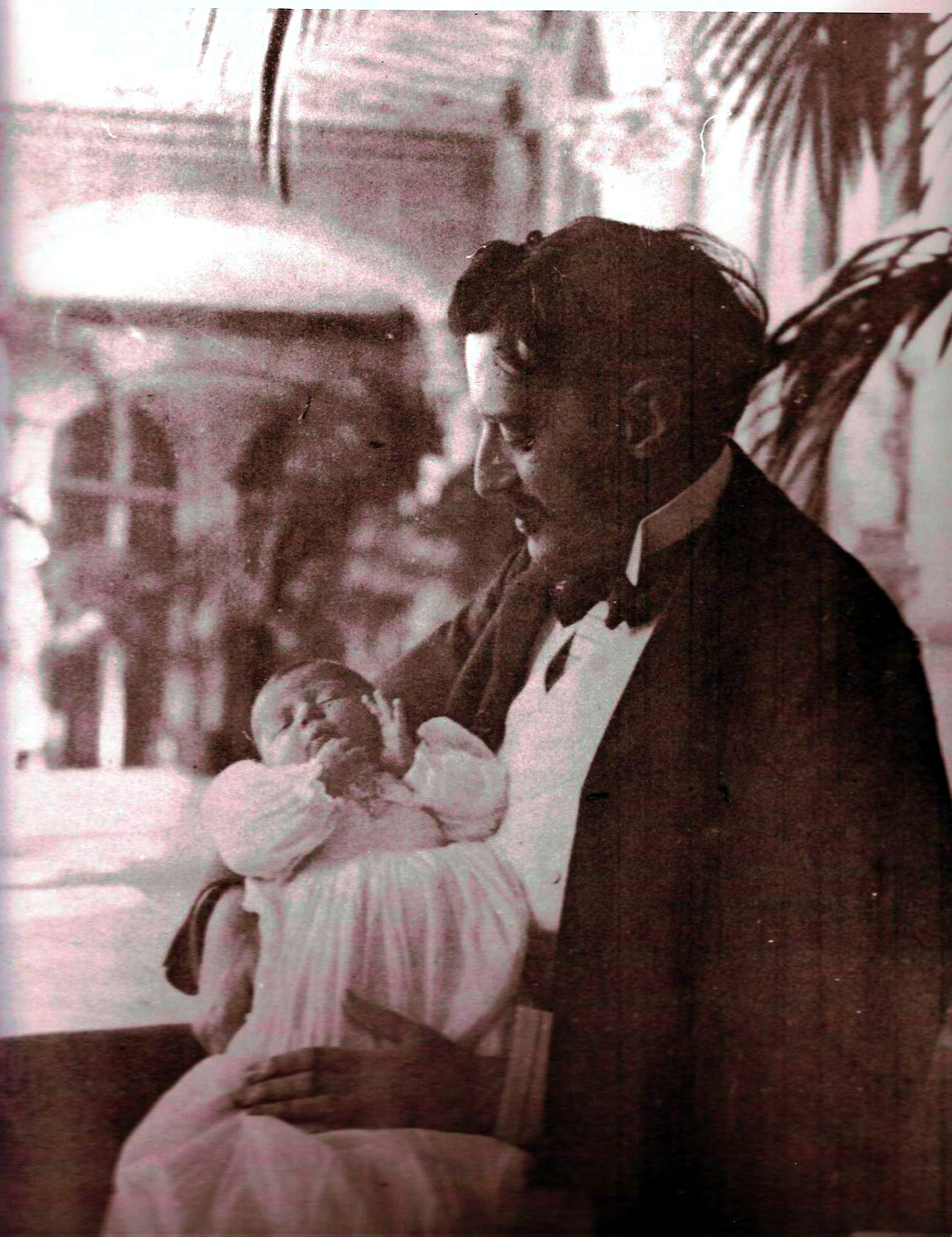 George Washington Vaberbilt II with daughter Cornelia